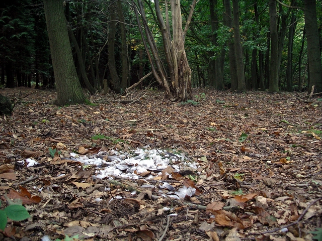 Body of evidence! Evidence of a murder in the forest! Actually, not even a body. A pile of feathers is all that remains of an unfortunate wood pigeon, almost certainly killed by a fox, in Sherwood Pines forest park.